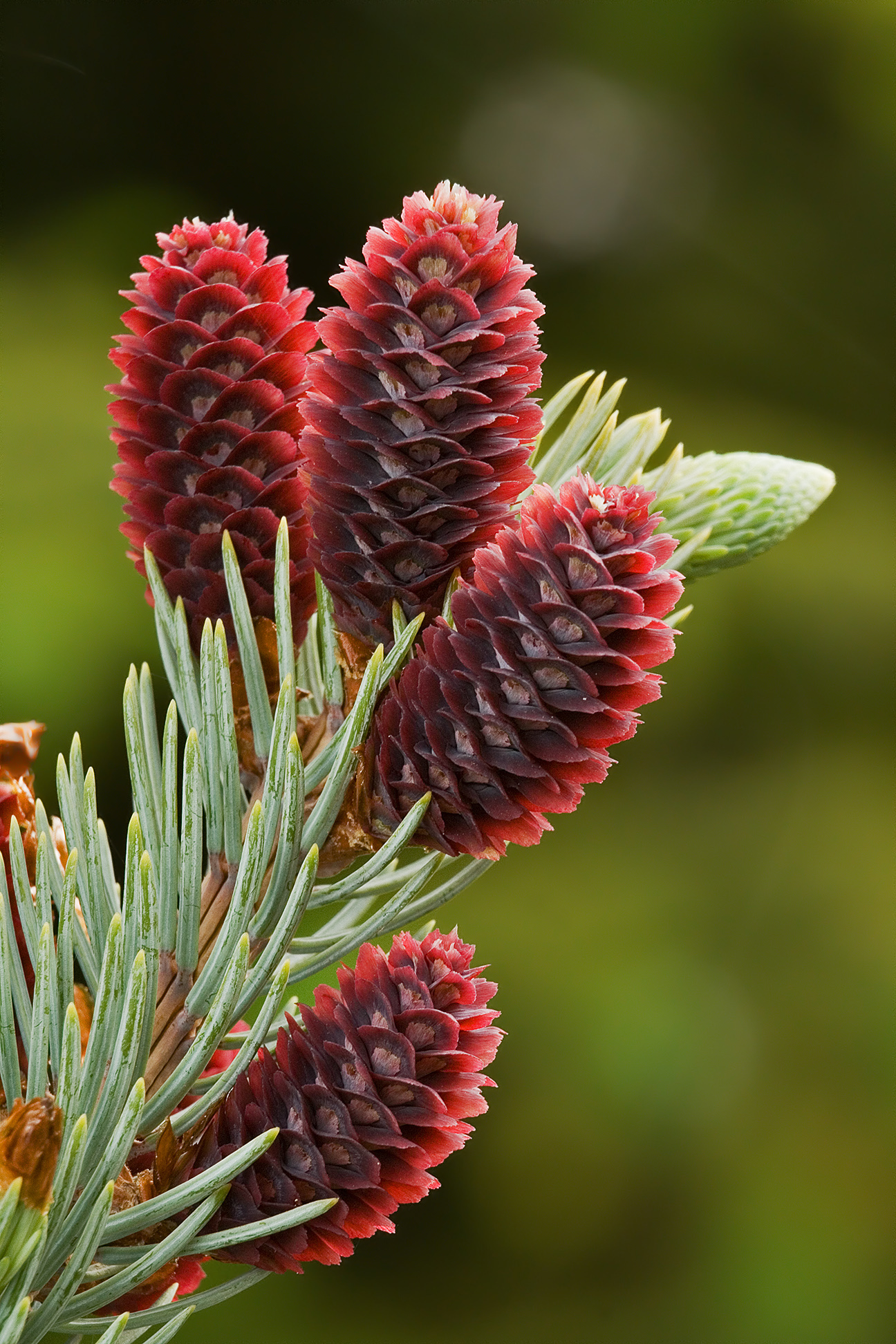 Young cones of a Colorado Blue Spruce (Picea pungens) Camera data Camera Canon EOS 400D Lens Canon EF 70-200mm f4L w/ 12mm extension tube Flash Fill Umbrella front right Focal length 188 mm Aperture f/11 Exposure time 1/30 s Sensivity ISO 400